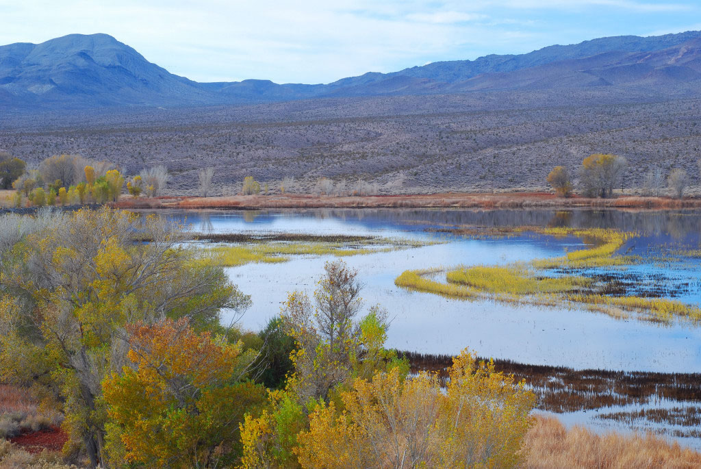 The waters on the Pahranagat NWR attract thousands of waterfowl during migration, as the wildlife refuge is a stop along the Pacific Flyway. (USFWS)